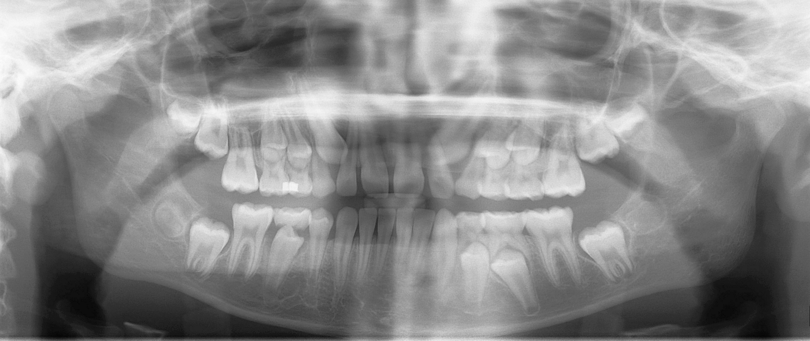 A panoramic radiograph of a 9 year old in mixed dentition, wisdom teeth buds can be seen distol to the unerupted 2nd molars